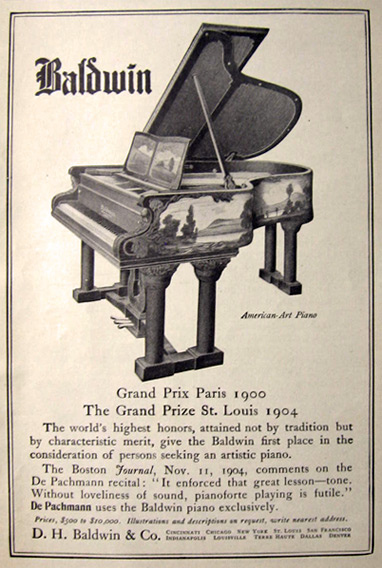 A Baldwin Piano advertising, published in magazines.